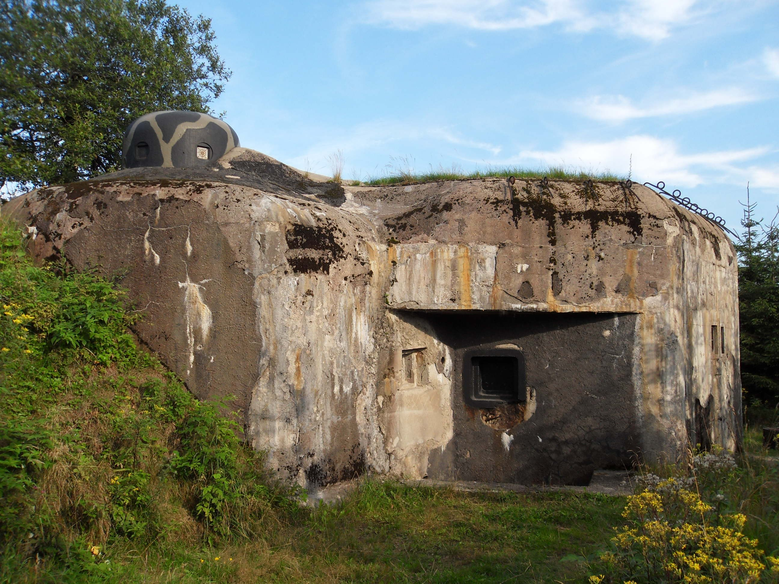 R-S 89 U silnice infantry casemate, Rychnov nad Kněžnou District, Czech Republic